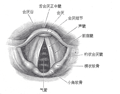 Anatomy of the Human Body